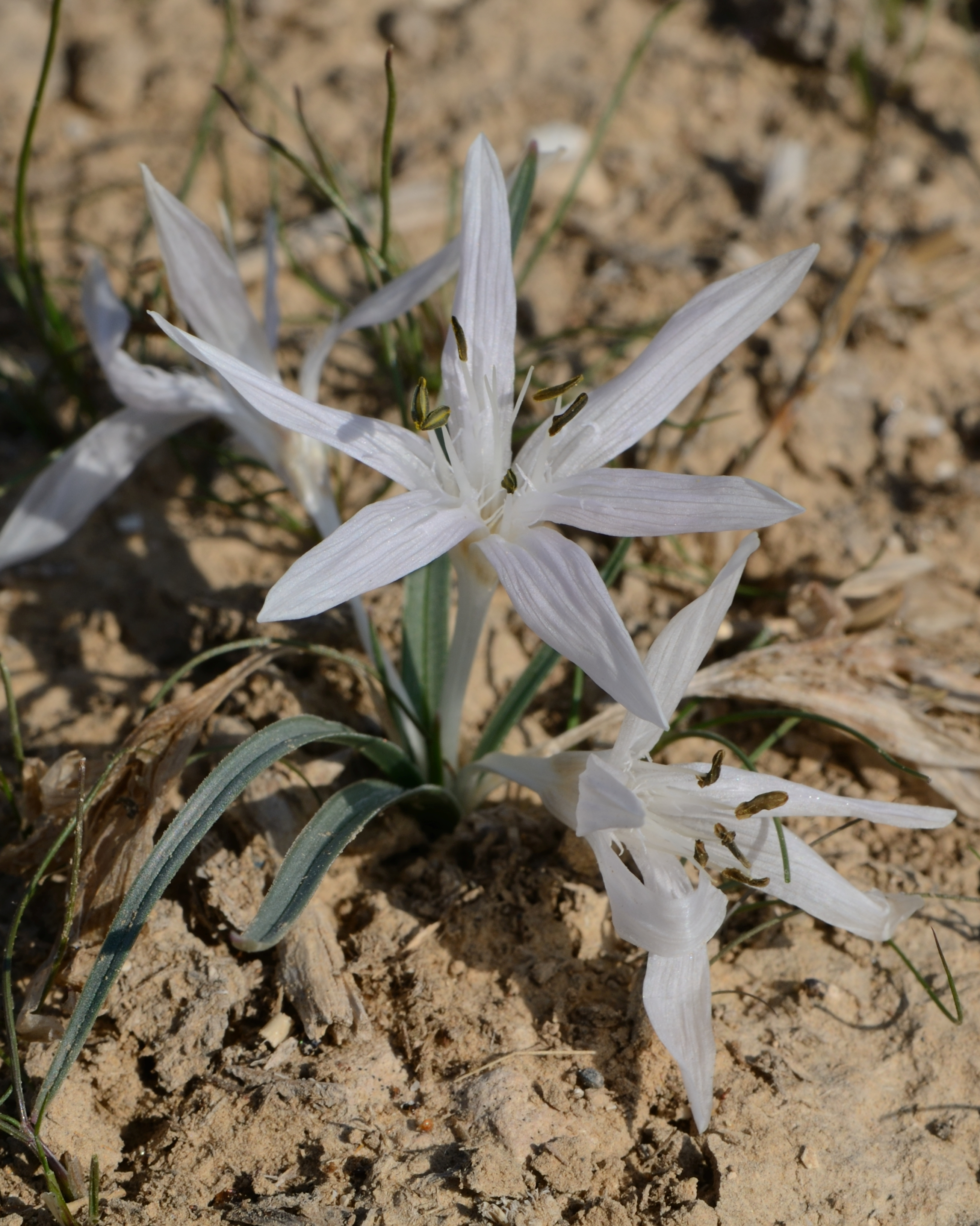 Colchicum tuviae Feinbrun, Beer Sheba, Israel, December 16, 2011.